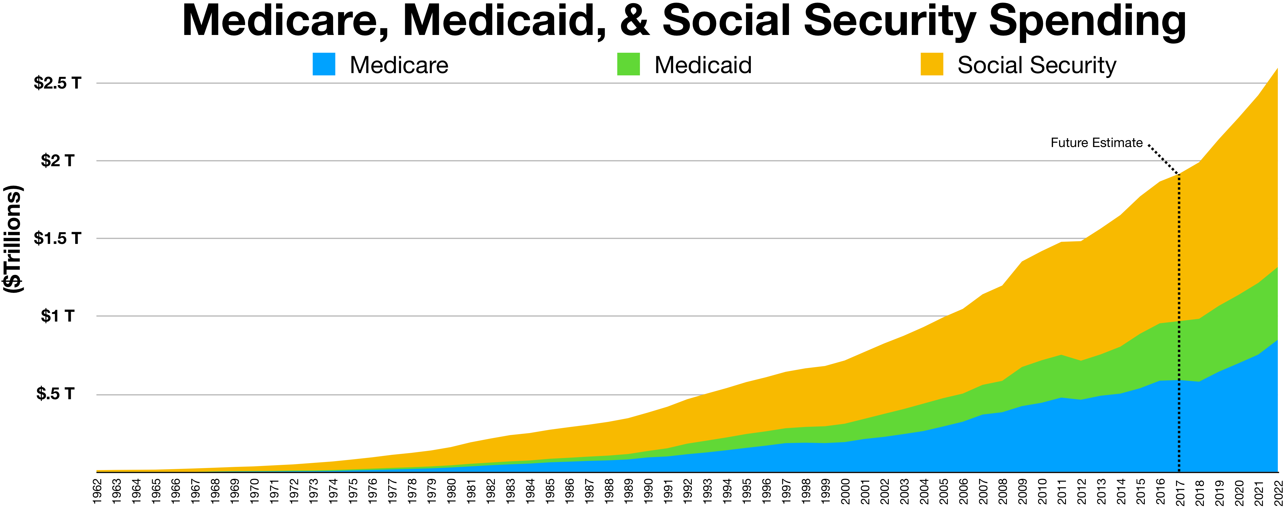 Medicare, Medicaid, and social security spending